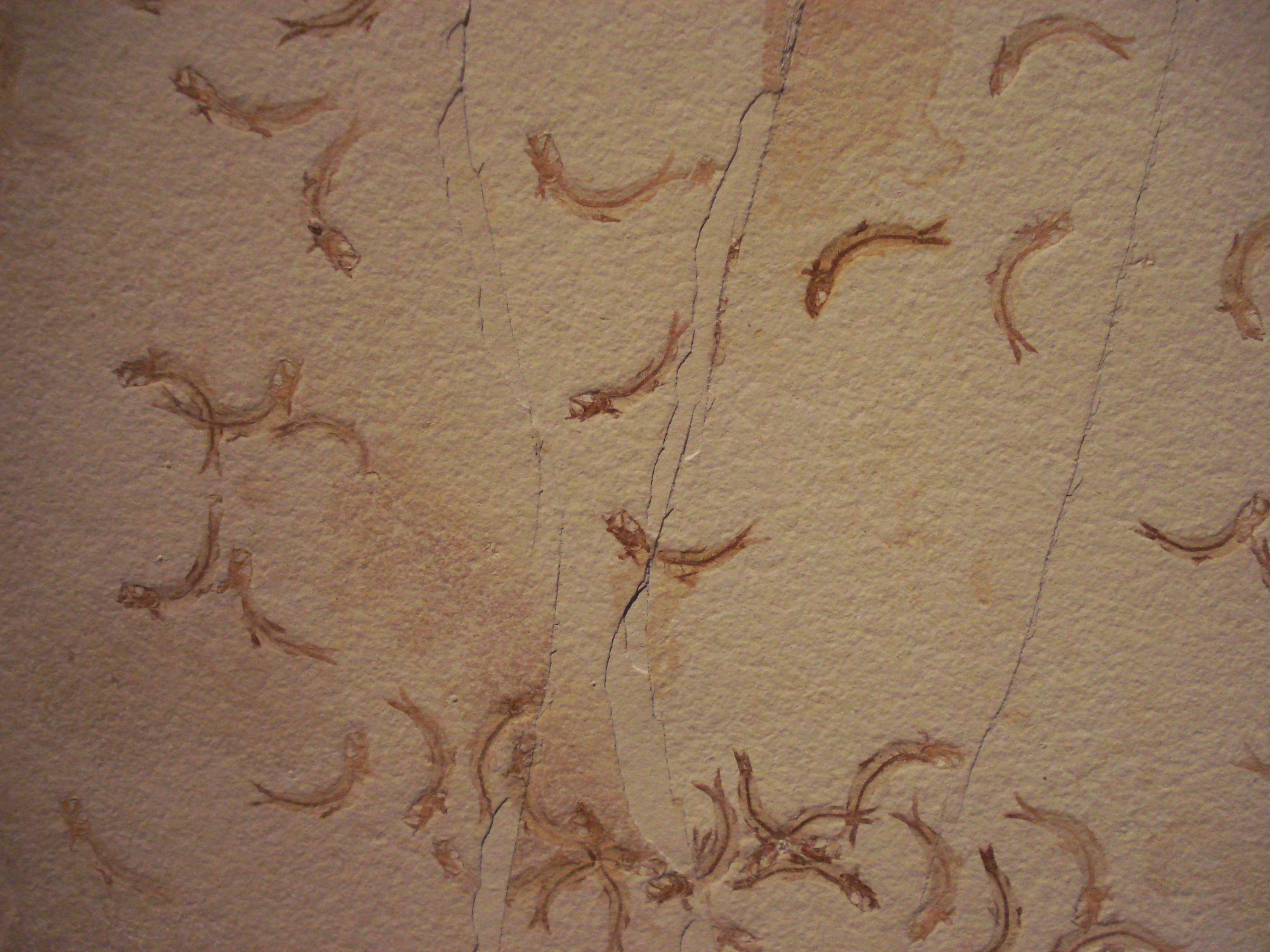 fossil of leptolepides